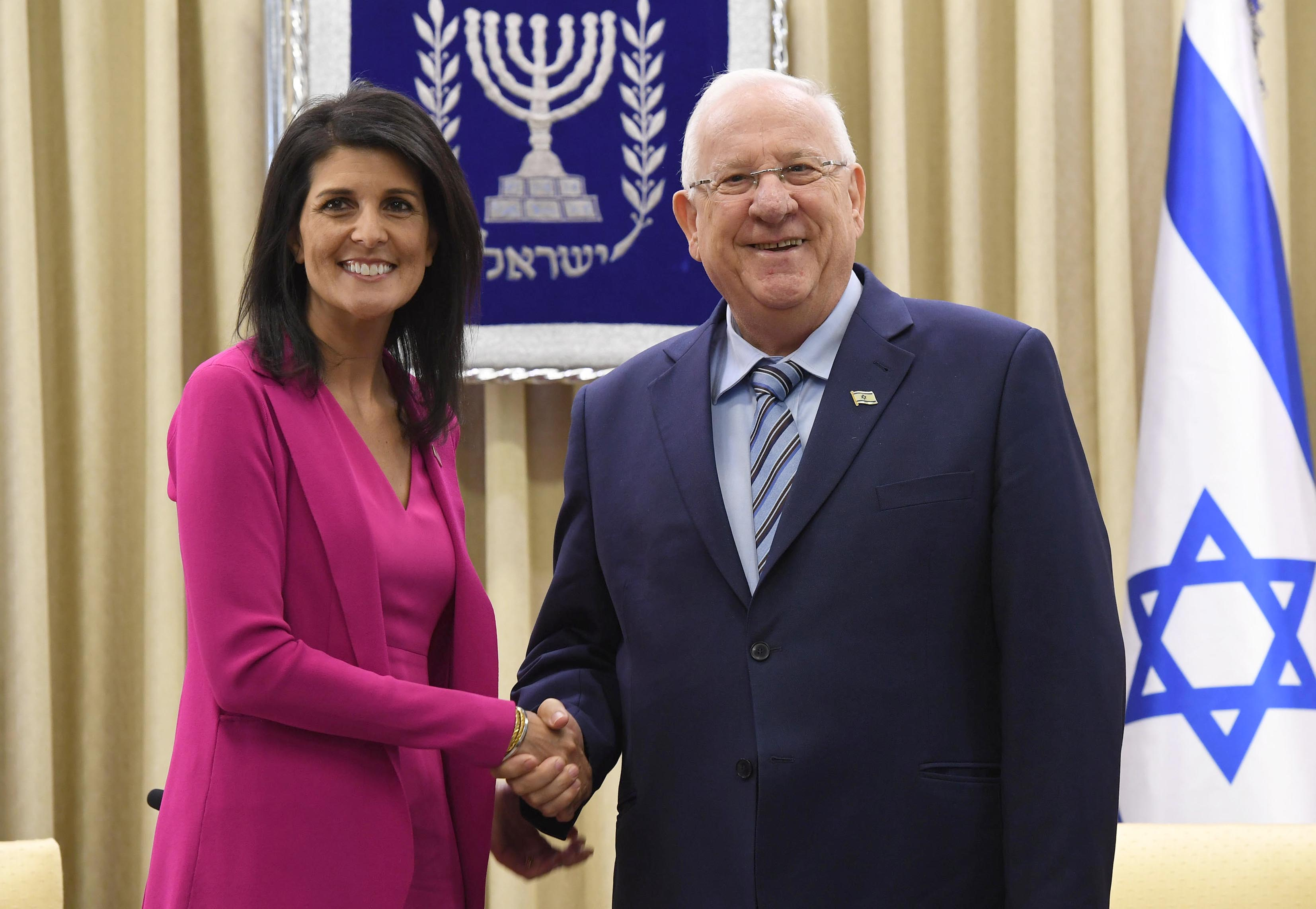 Reuven Rivlin, the President of the State of Israel, held a working meeting with United States Ambassador to the UN Nikki Haley. Wednesday, June 7, 2017. Photo Credit: Mark Neiman / GPO